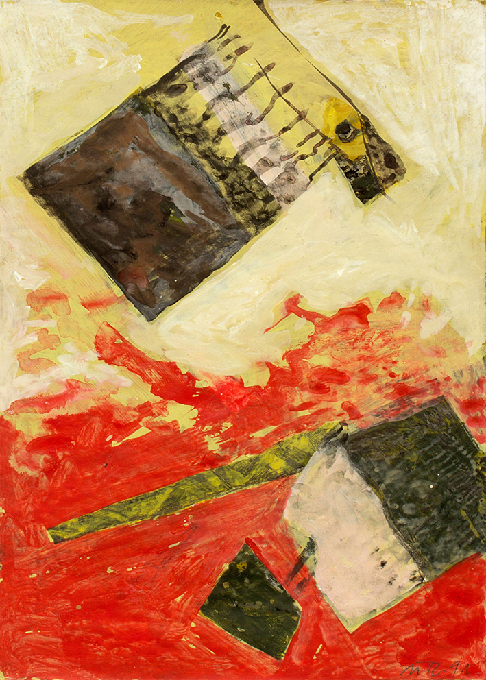 dominant